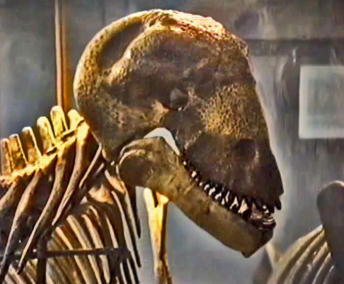 Moschops capensis, at the American Museum of Natural History, New York